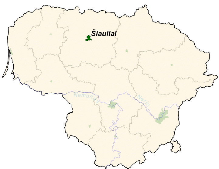 Šiauliai on the map of Lithuania